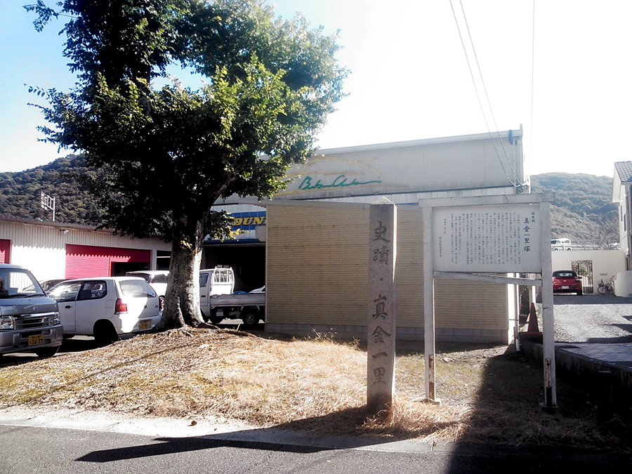 Makane-Ichirizuka(South side), Kibitsu, Kita-ku, Okayama, Sanyo-do road, Japan